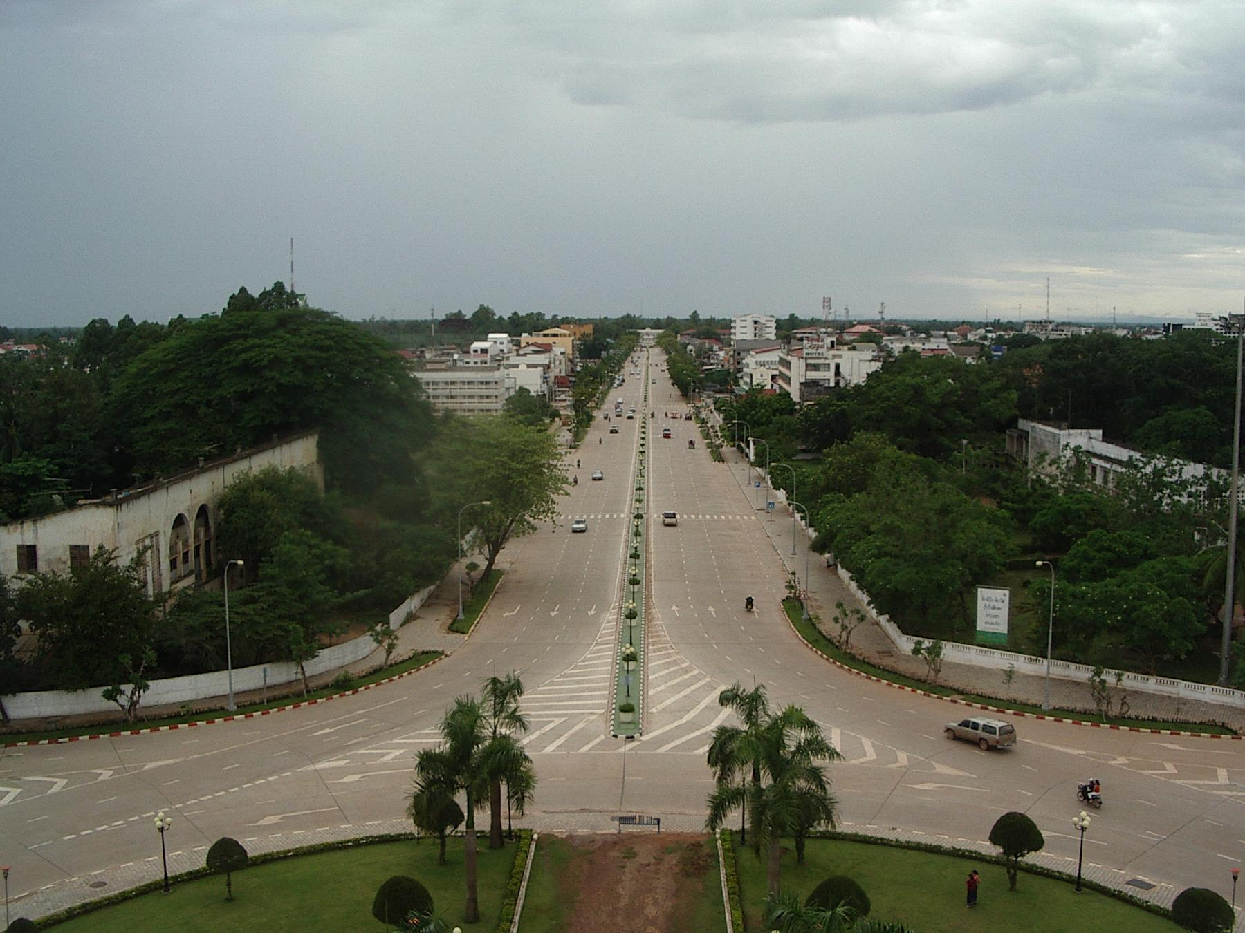 Very low rise sort of town!